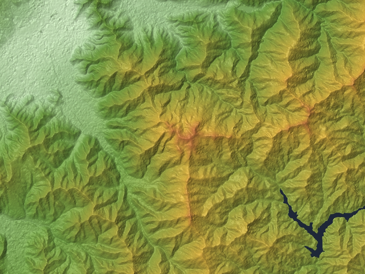 Mount Makihata in the border between Niigata and Gunma prefectures, Honshu, Japan.